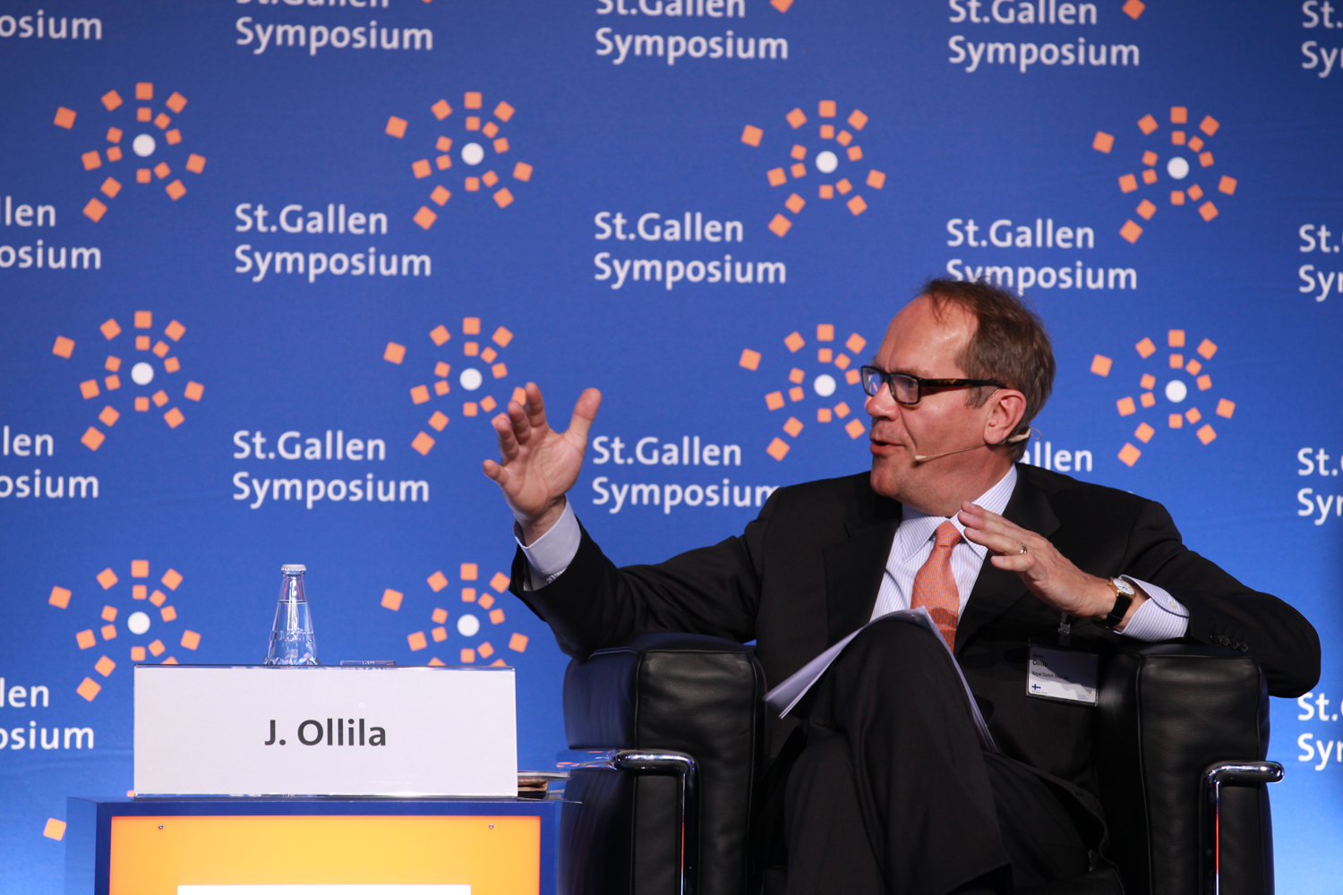 Jorma Olilla in May 2011 at the 41. St. Gallen Symposium at the University of St. Gallen